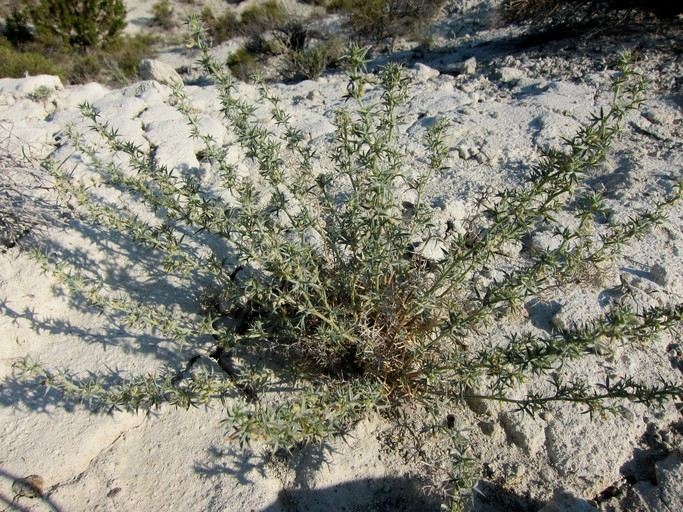 Astragalus kentrophyta var. elatus, Pine Valley, Eureka County, Nevada, USA. This photo is in the public domain and may be freely used for any purpose.